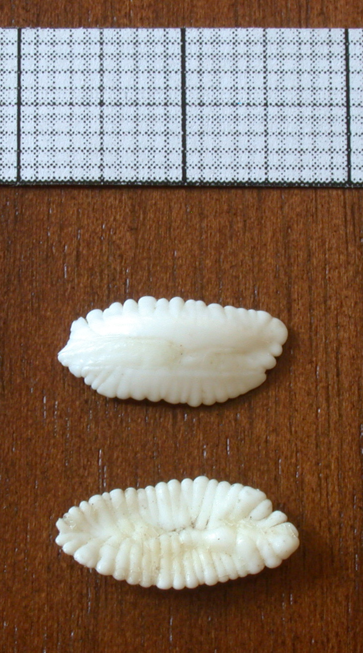 Otoliths of Atlantic cod